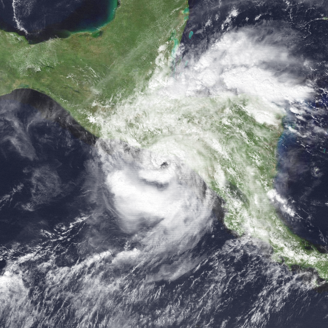 Tropical Storm Miriam near peak intensity shortly after entering the eastern Pacific basin on October 23, 1988